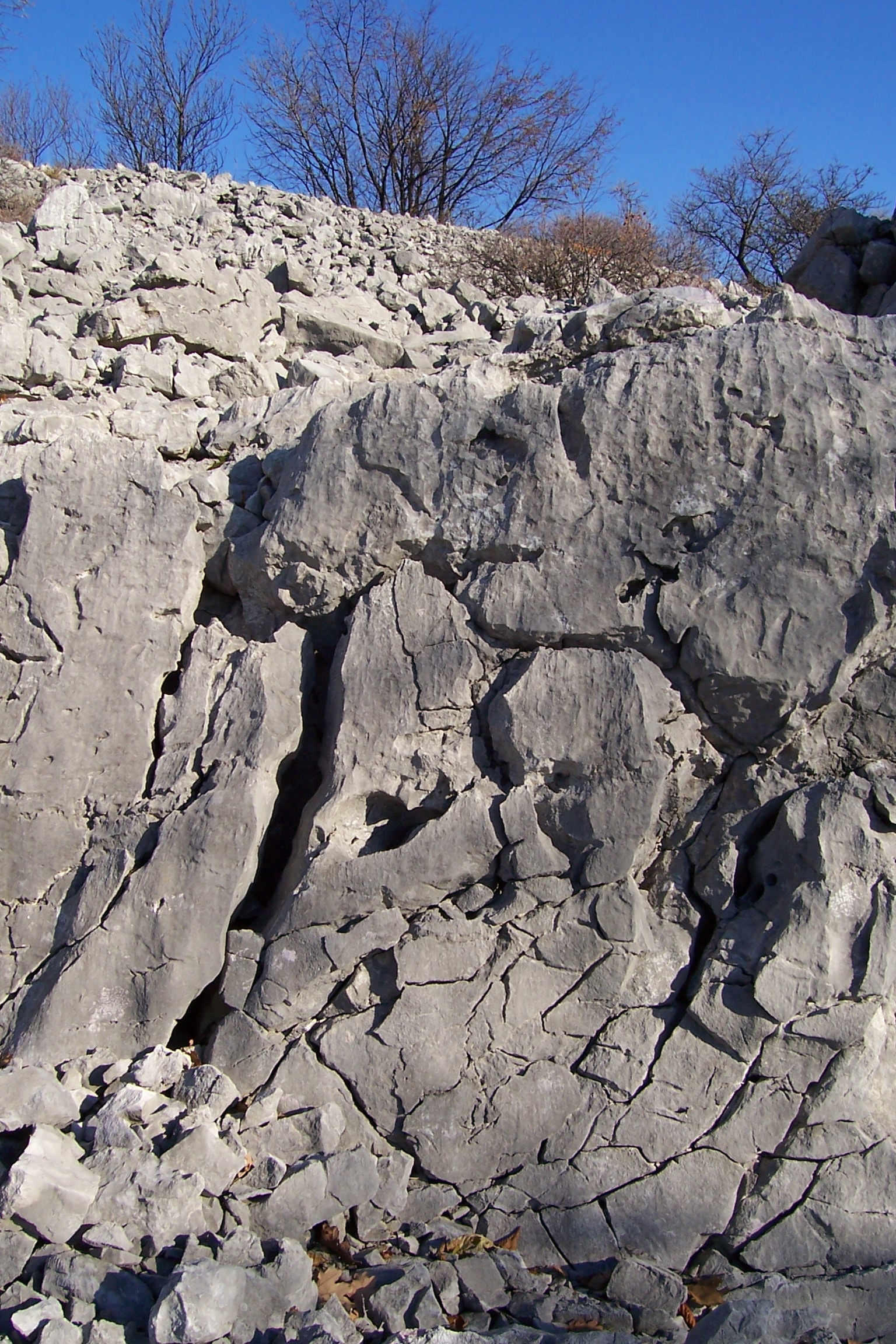 Karst in Italies north-east region Friuli-Venezia Giulia near Doberdò del Lago. Dissolution images and rock fractures are visible. Selective dissolution is the cause of grize.